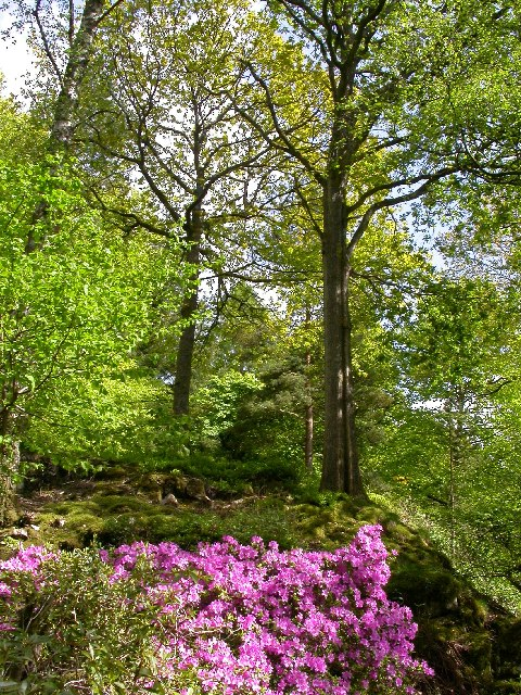 Stagshaw Garden. National Trust informal garden, full of blooming Azaleas in May.